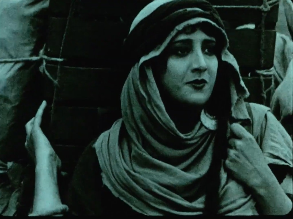 Screenshot from the silent film The Ten Commandments (1923).